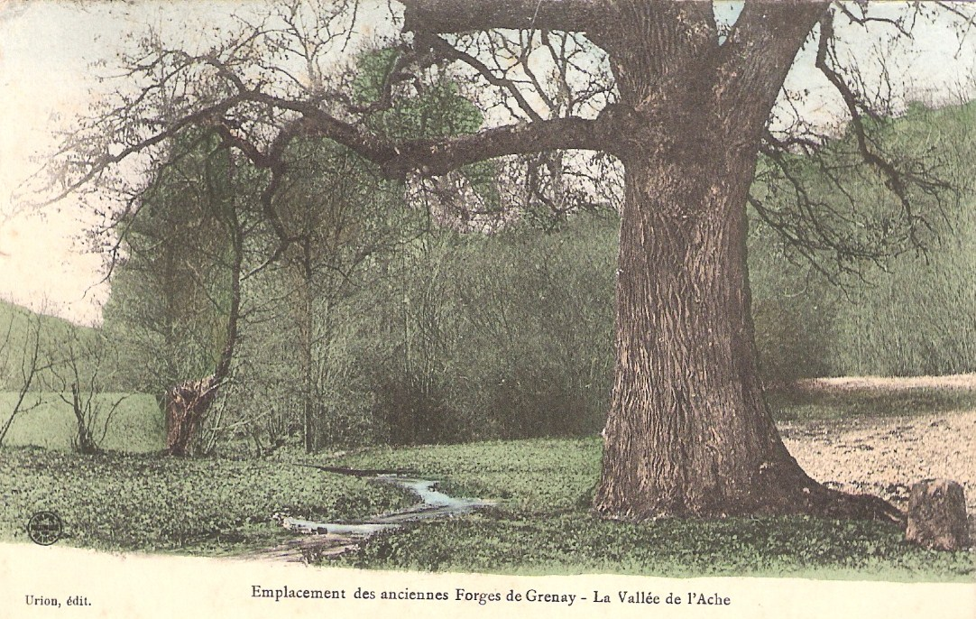 Old post card. Between Rogéville and Gézoncourt (Meurthe-et-Moselle ; France). Ancient forges of Grenay